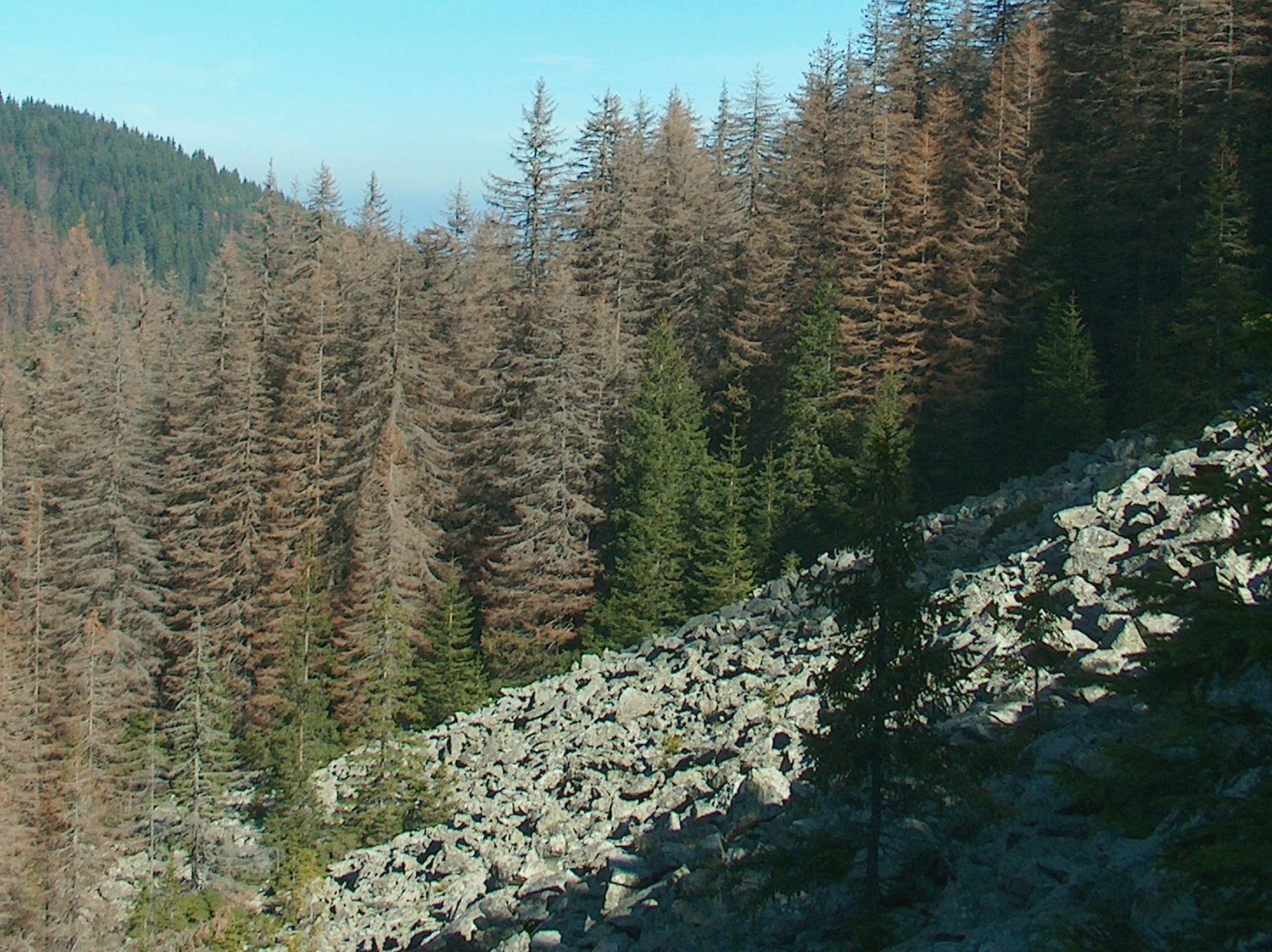 Stone river (stone run) on Vitosha Mountain, Bulgaria